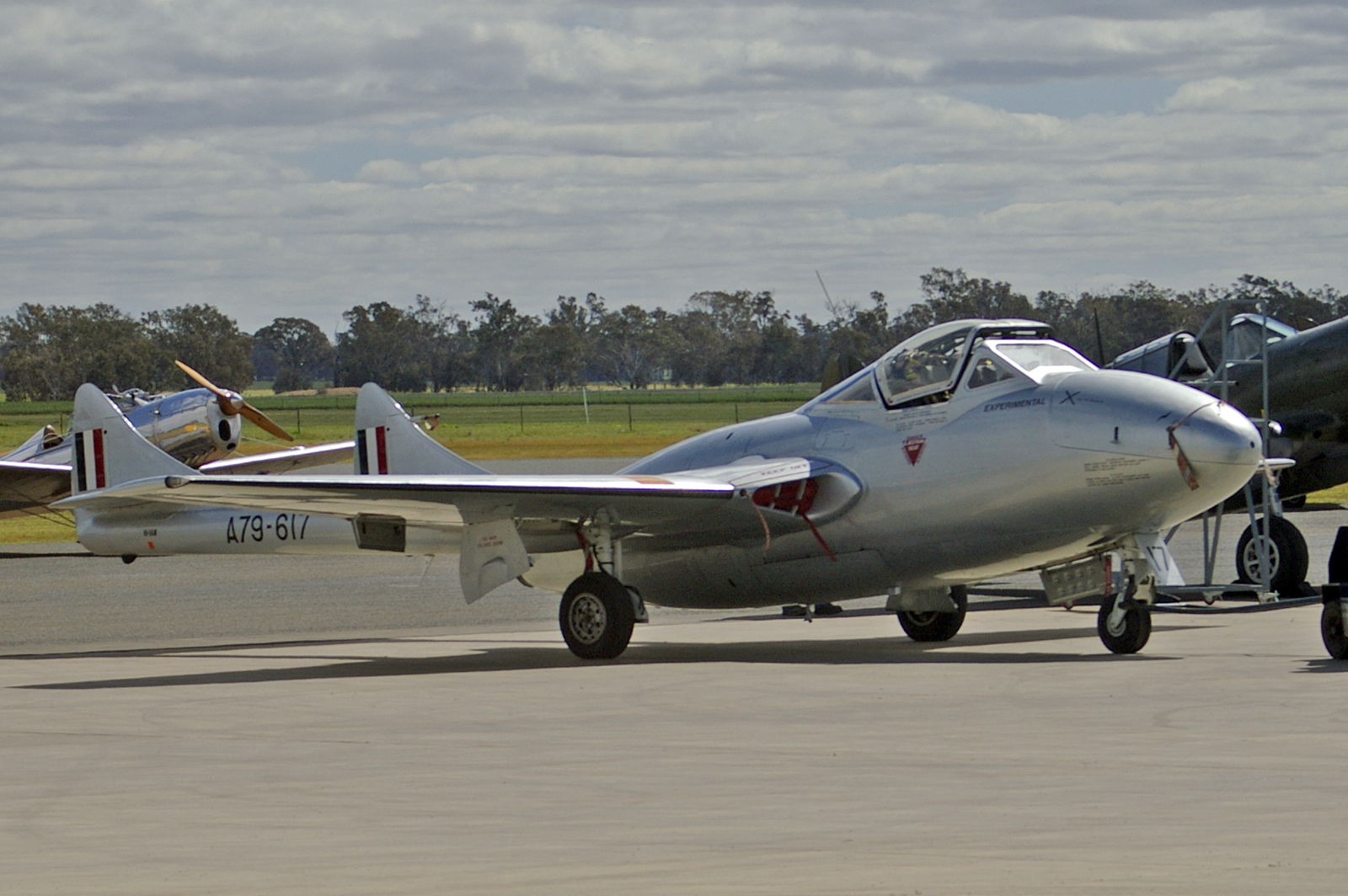 DH-115 Vampire T35 A79-617 (VH-VAM) at the Temora Aviation Museum.